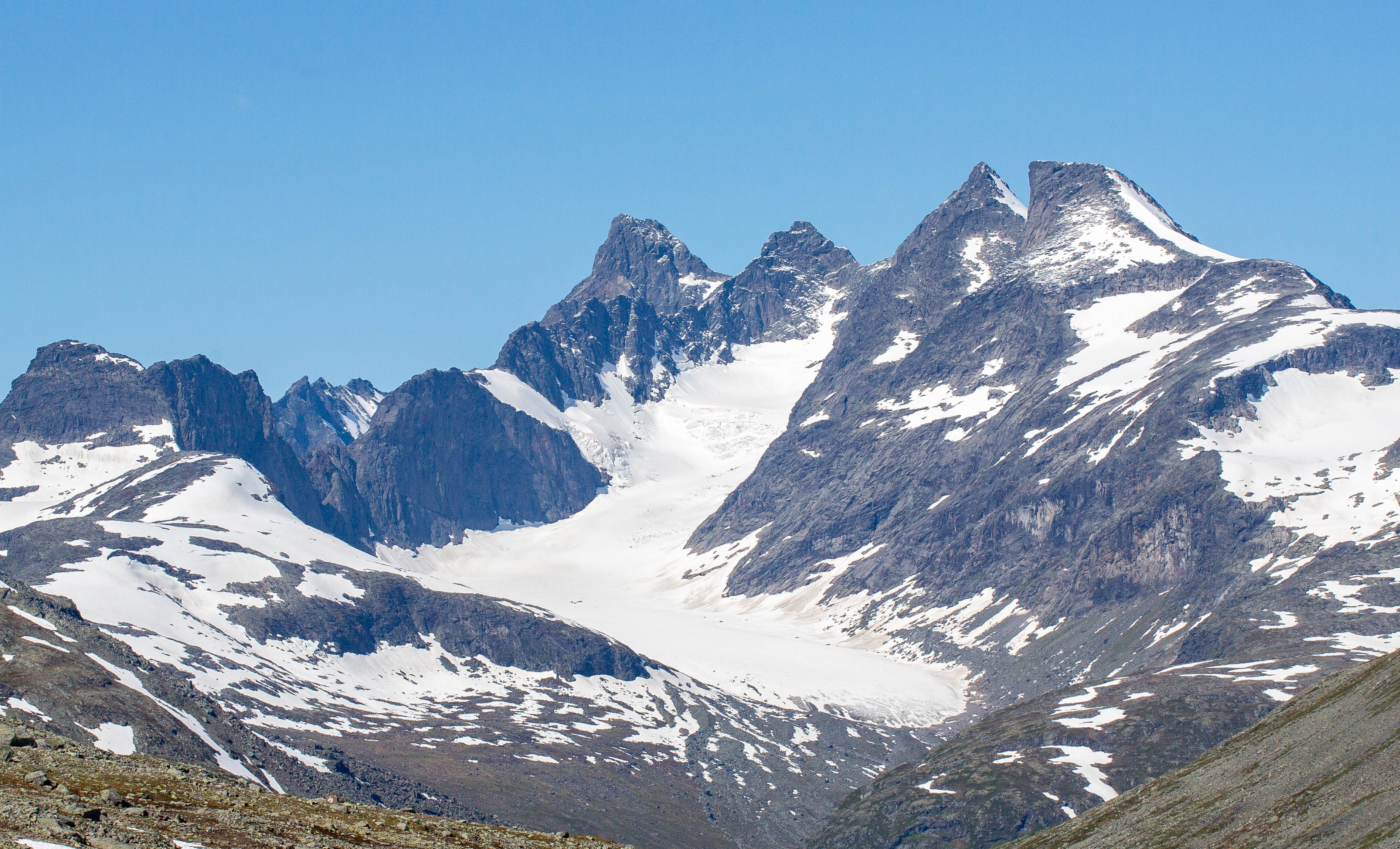 View of Hurrungane